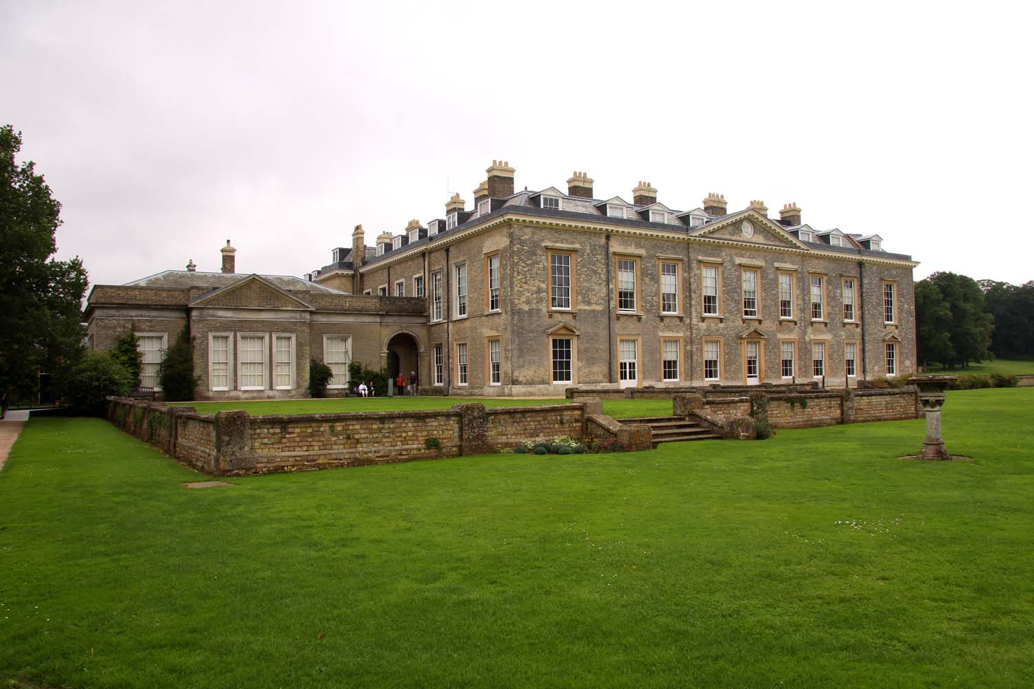 Rear (northern) side of Althorp House, Northamptonshire